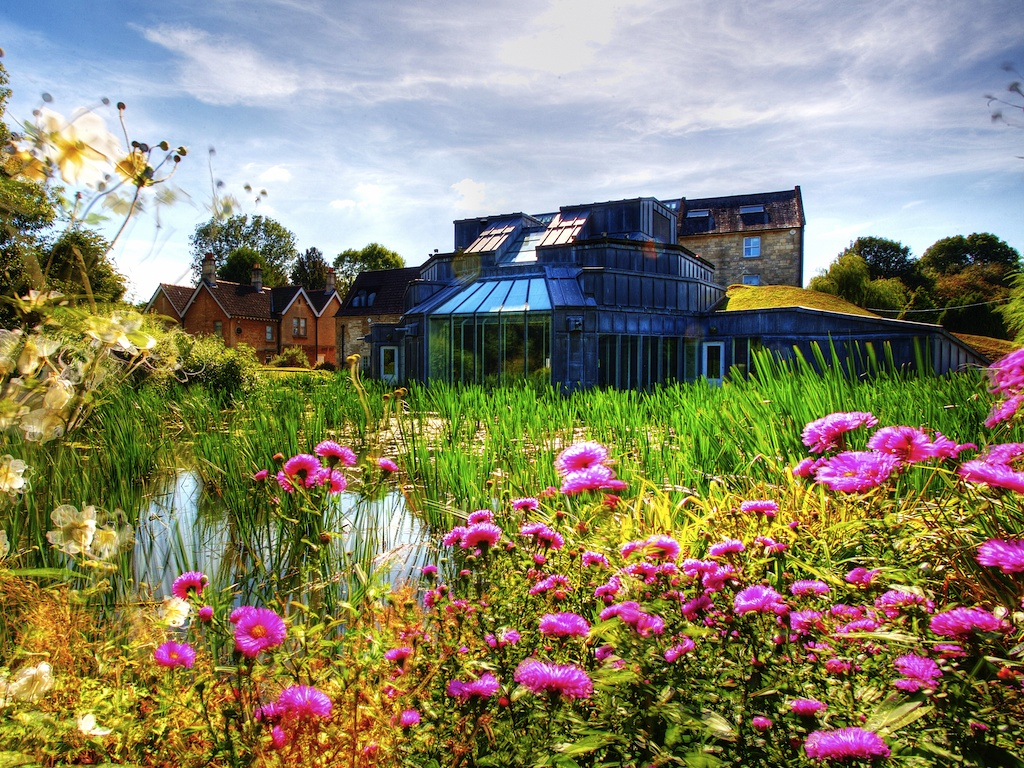 Big Room View